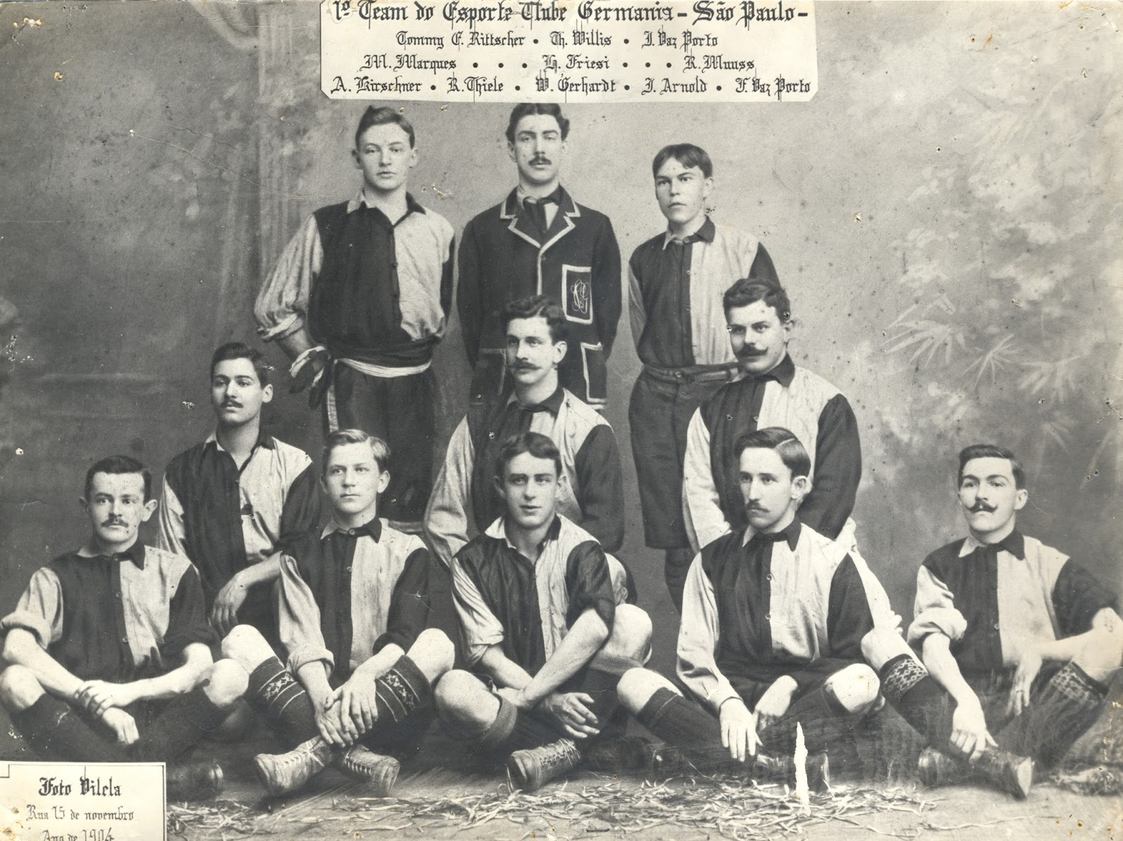 Football line-up of SC Germania of São Paulo, Brazil.